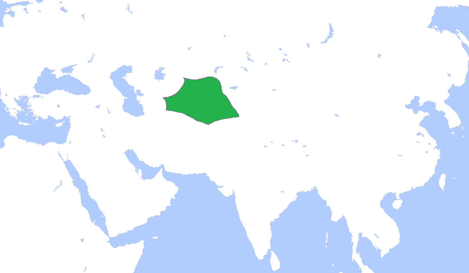 Locator map of the Khanate of Bukhara, c. 1600. (Partially based on Atlas of World History (2007) - The World 1500-1600, map)